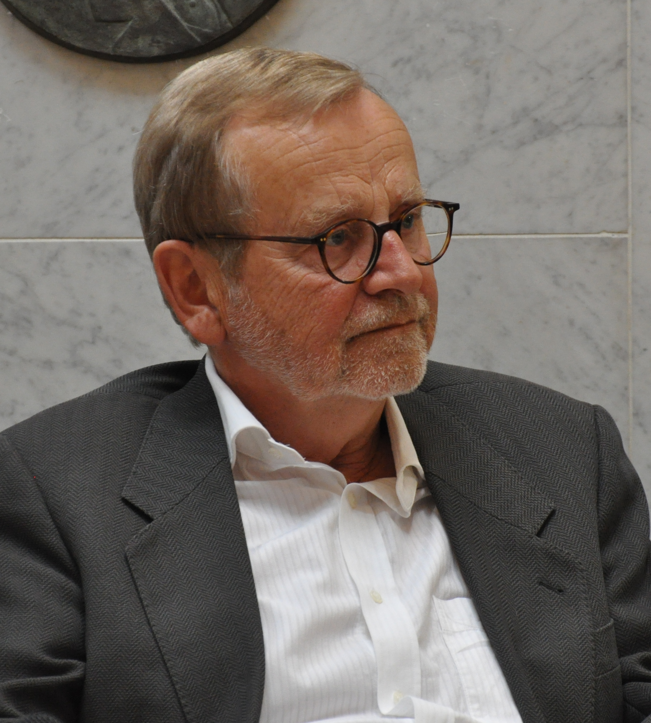 Finnish writer Johan Bargum at the Academic Bookstore on the Night of the Arts in Helsinki, 2011.